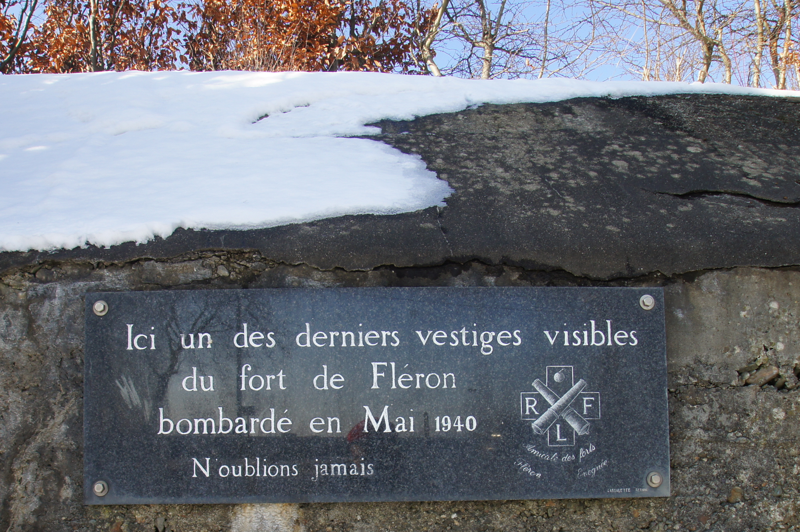 Fléron, Belgium: Plaque at one of the last remaining visible rests of the fort of Flémalle